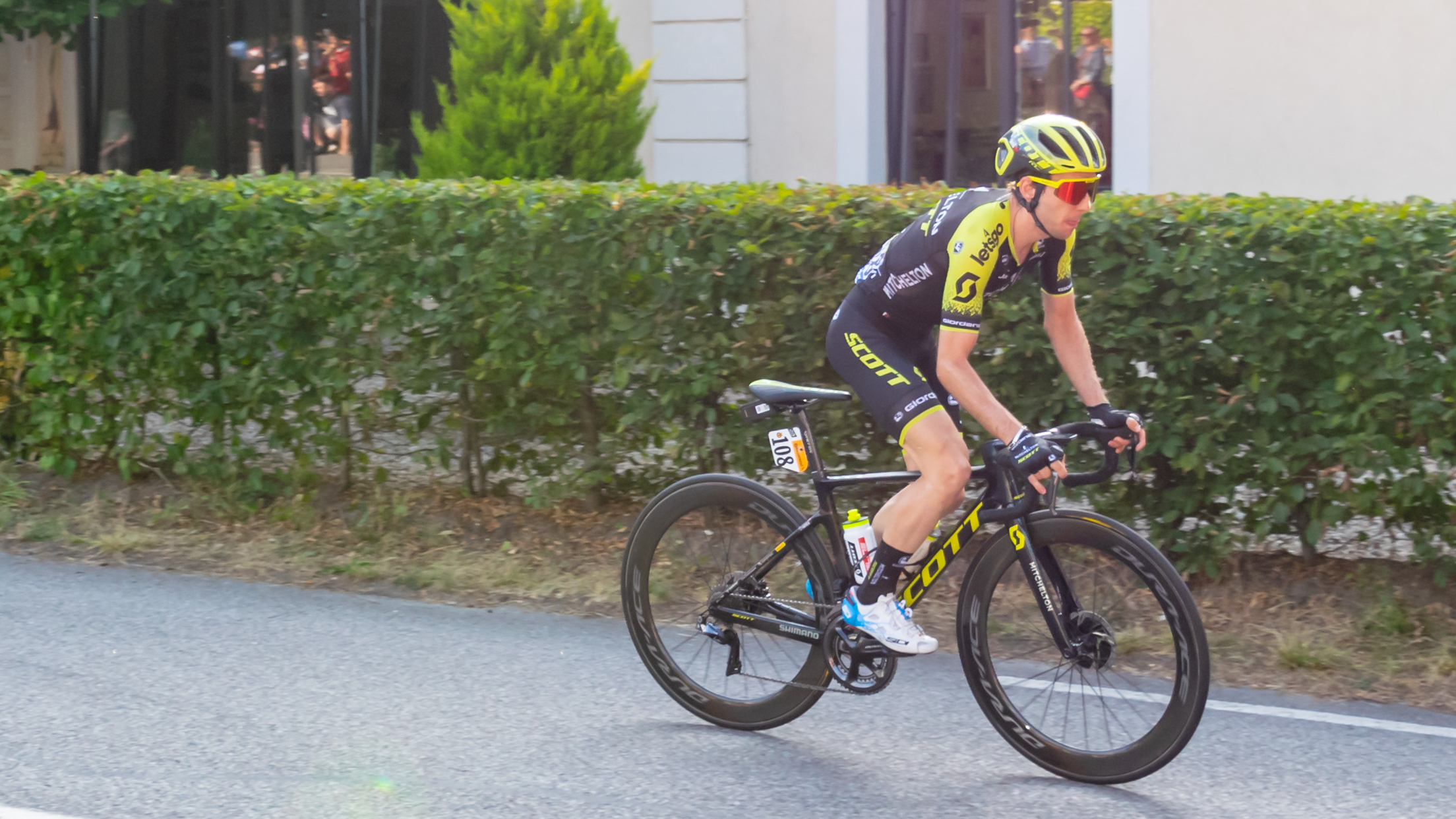 108. Simon Yates (ANG)